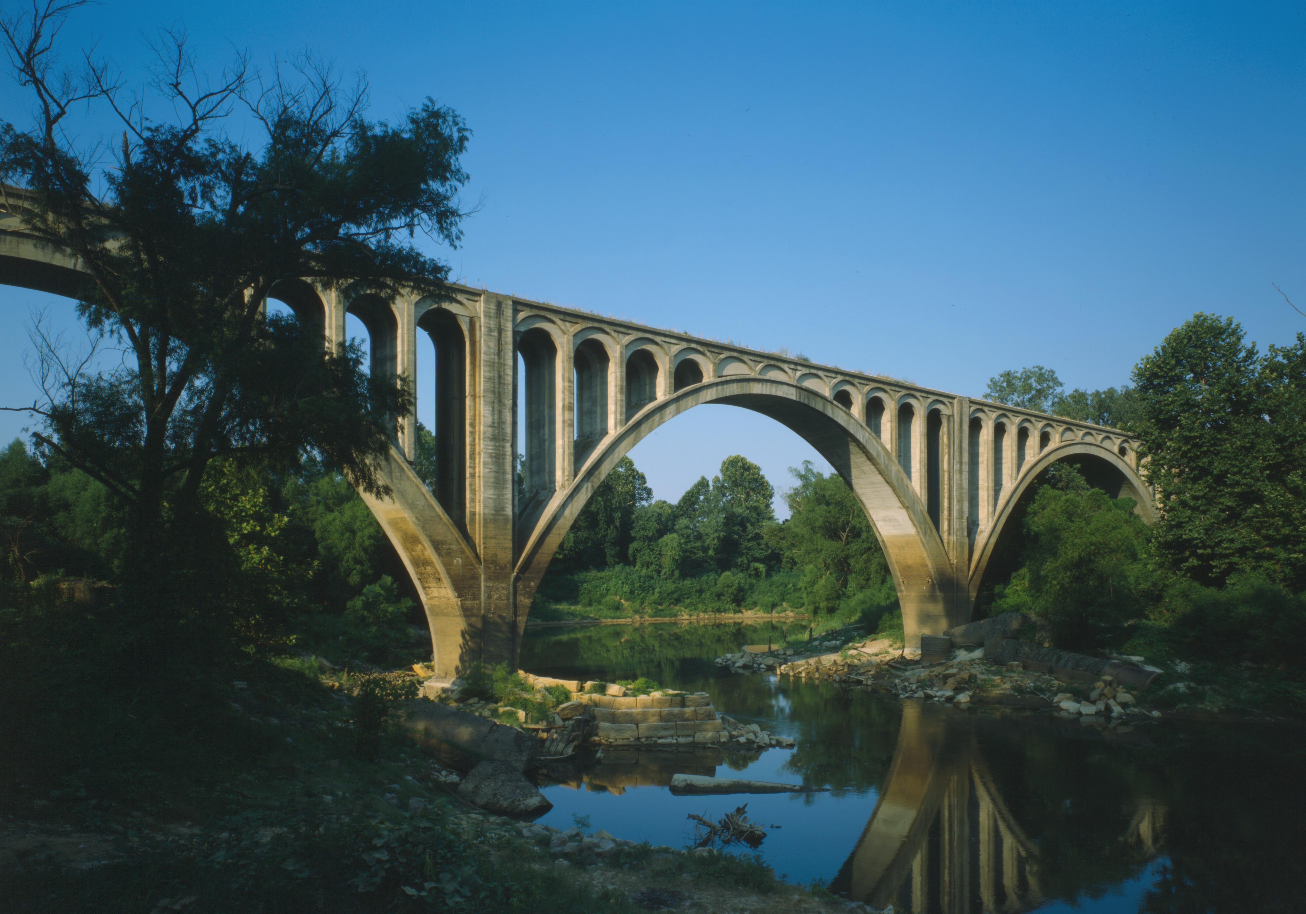 Southern (downstream) side of the Big Black River Railroad Bridge, which carries an Illinois Central railroad line over the Big Black River east of Bovina across the Hinds/Warren county line in the U.S. state of Mississippi. Built in 1917, this open-spandrel concrete deck arch bridge is listed on the National Register of Historic Places.